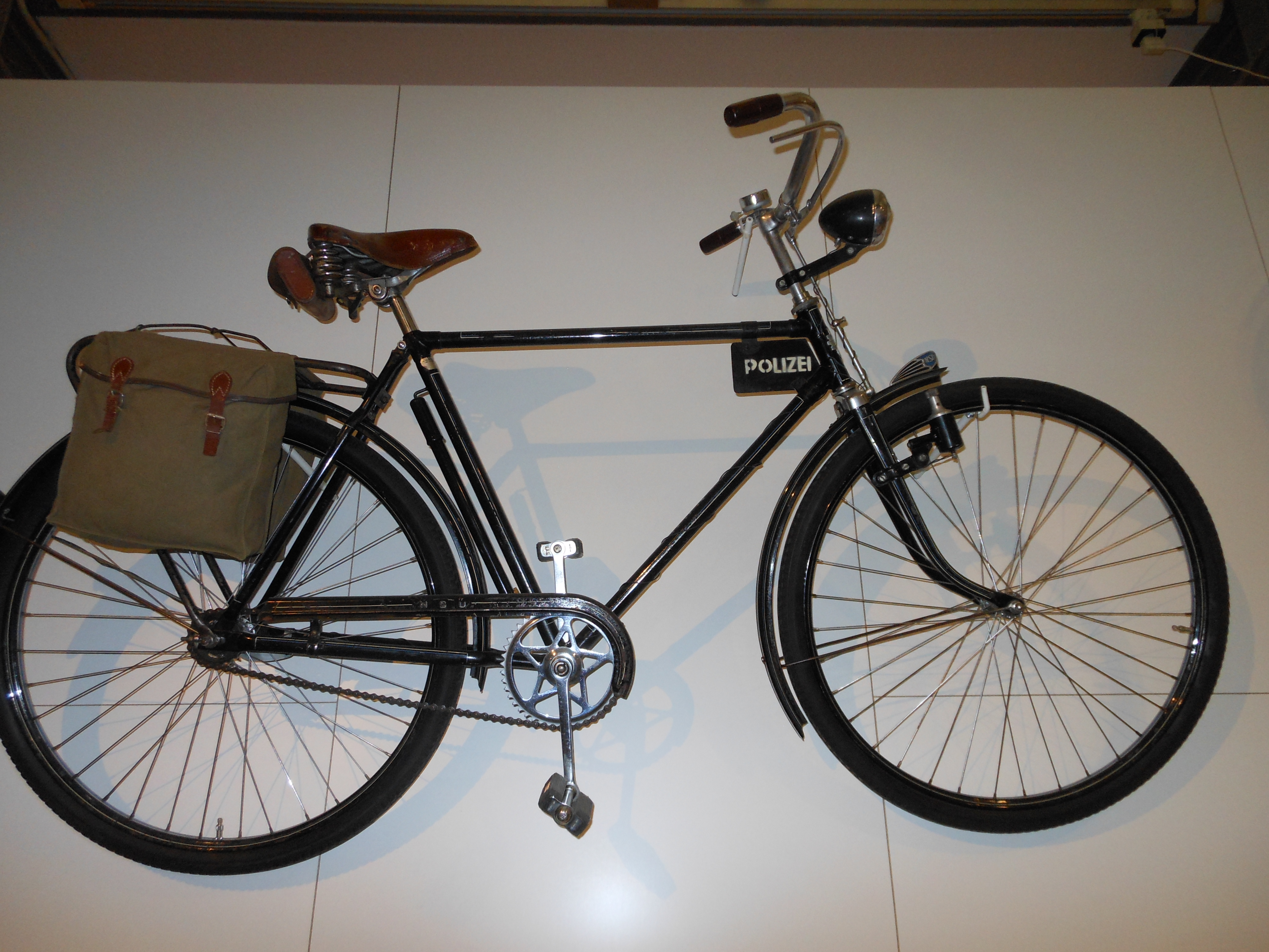 Bicycle for german police, around 1940